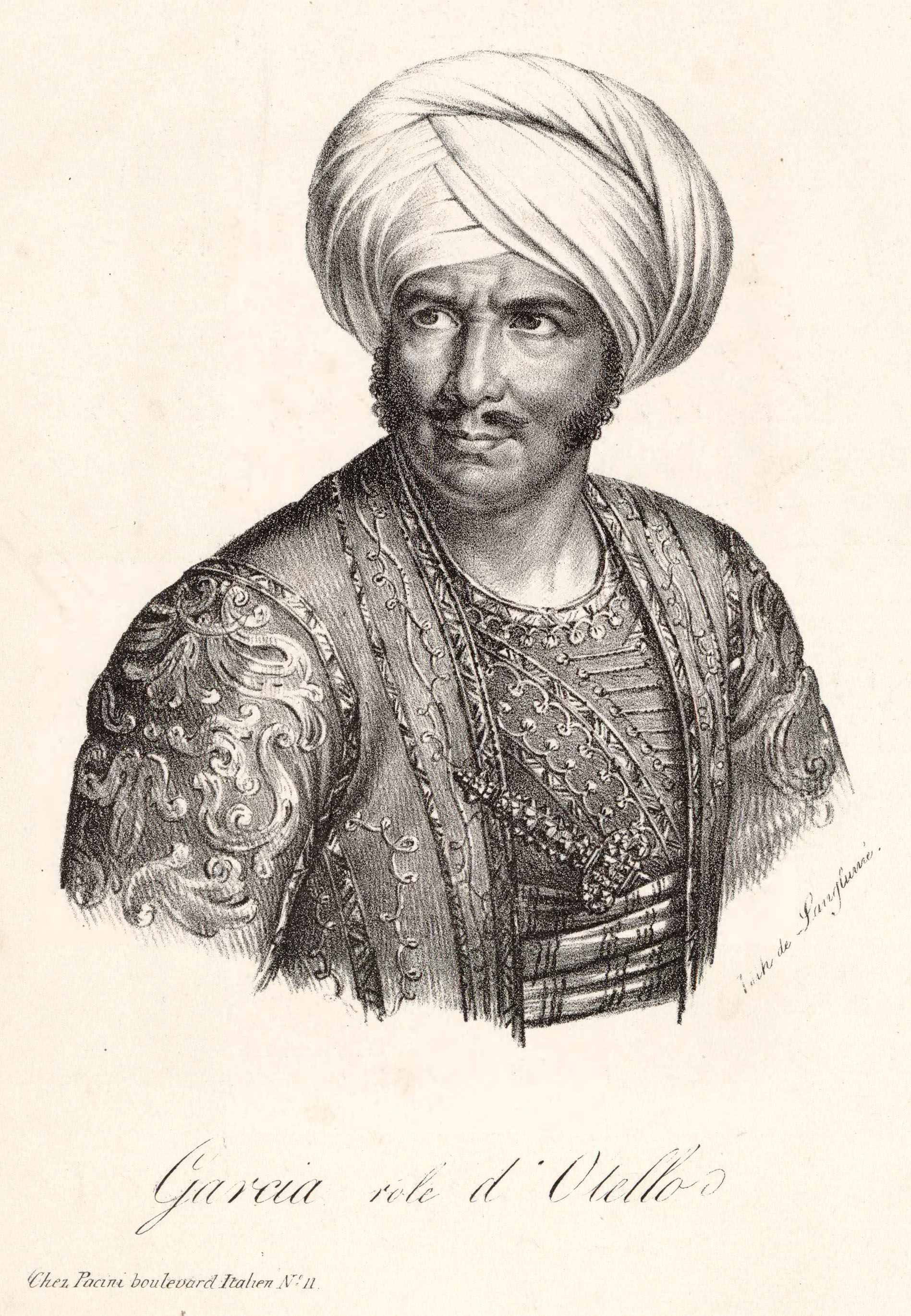 The Spanish tenor Manuel García in the title role of Rossini's Otello, probably around the time he first performed it at the Théâtre-Italien in Paris (1821).